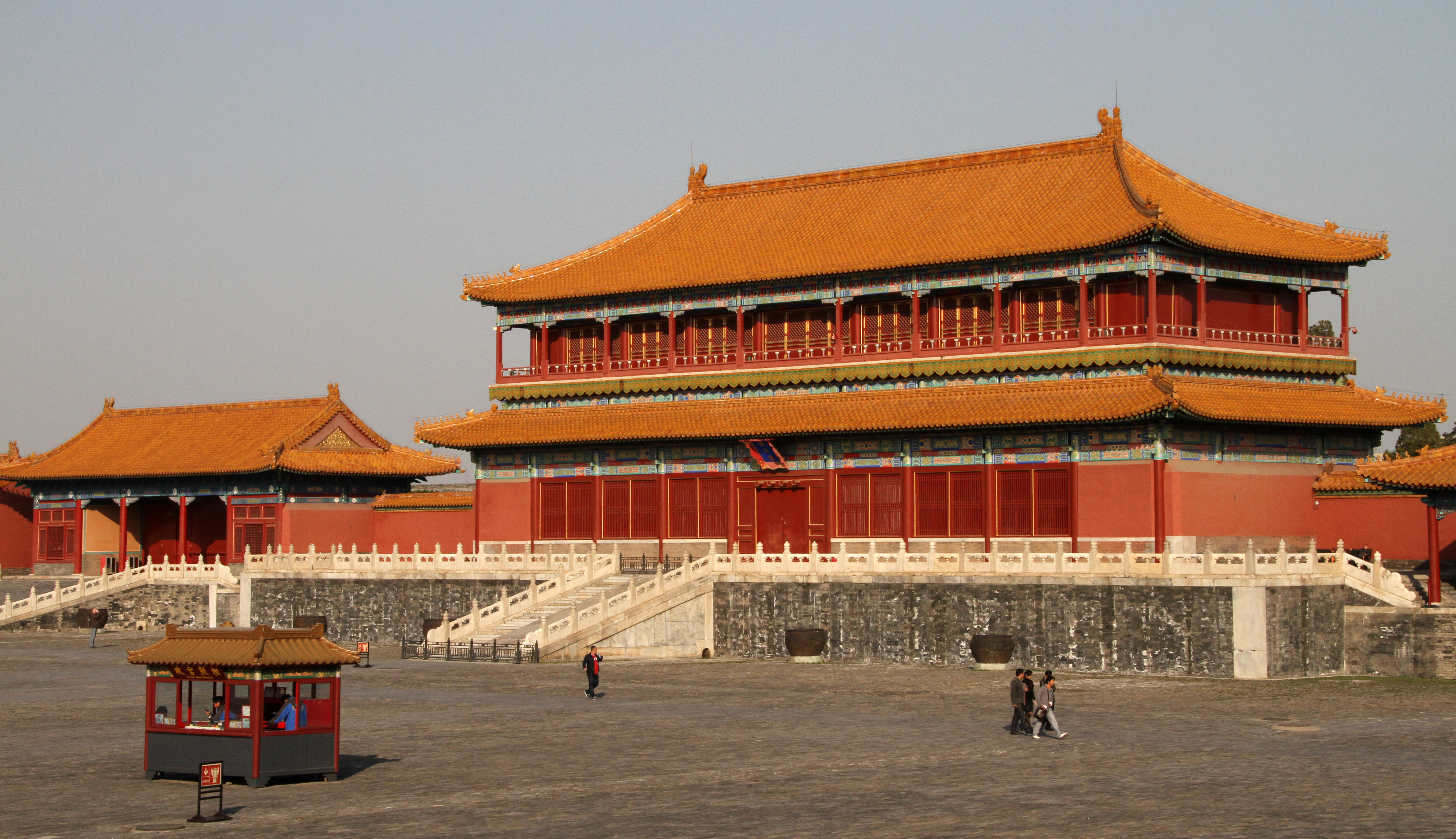 Beijing - Forbidden City - Belvedere of Spreading Righteousness